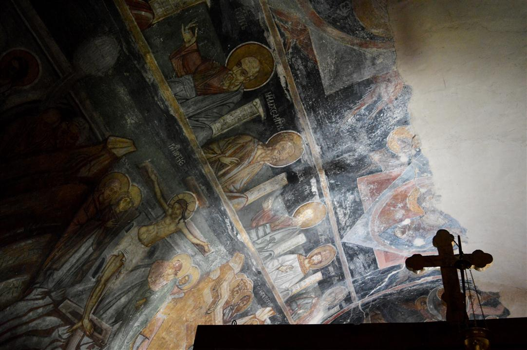 Raska Municipality - Church of St. Petka, Trnava